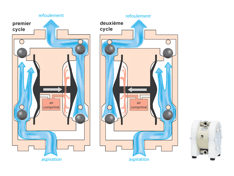 The Tapflo diaphragm pump is driven by compressed air. The two diaphragms, connected by a diaphragm shaft, are pushed back and forth by alternately pressurising the air chambers behind the diaphragms using an automatically cycling air valve system. 1 : suction. One diaphragm creates a suction action when being pulled back from the housing. 2 : discharge. The other diaphragm simultaneously transmits the air pressure to the liquid in the housing, pushing it towards the discharge port. During each cycle the air pressure on the back of the discharging diaphragm is equal to the head pressure on the liquid side.